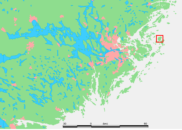 Island of Sweden - Moja.PNG